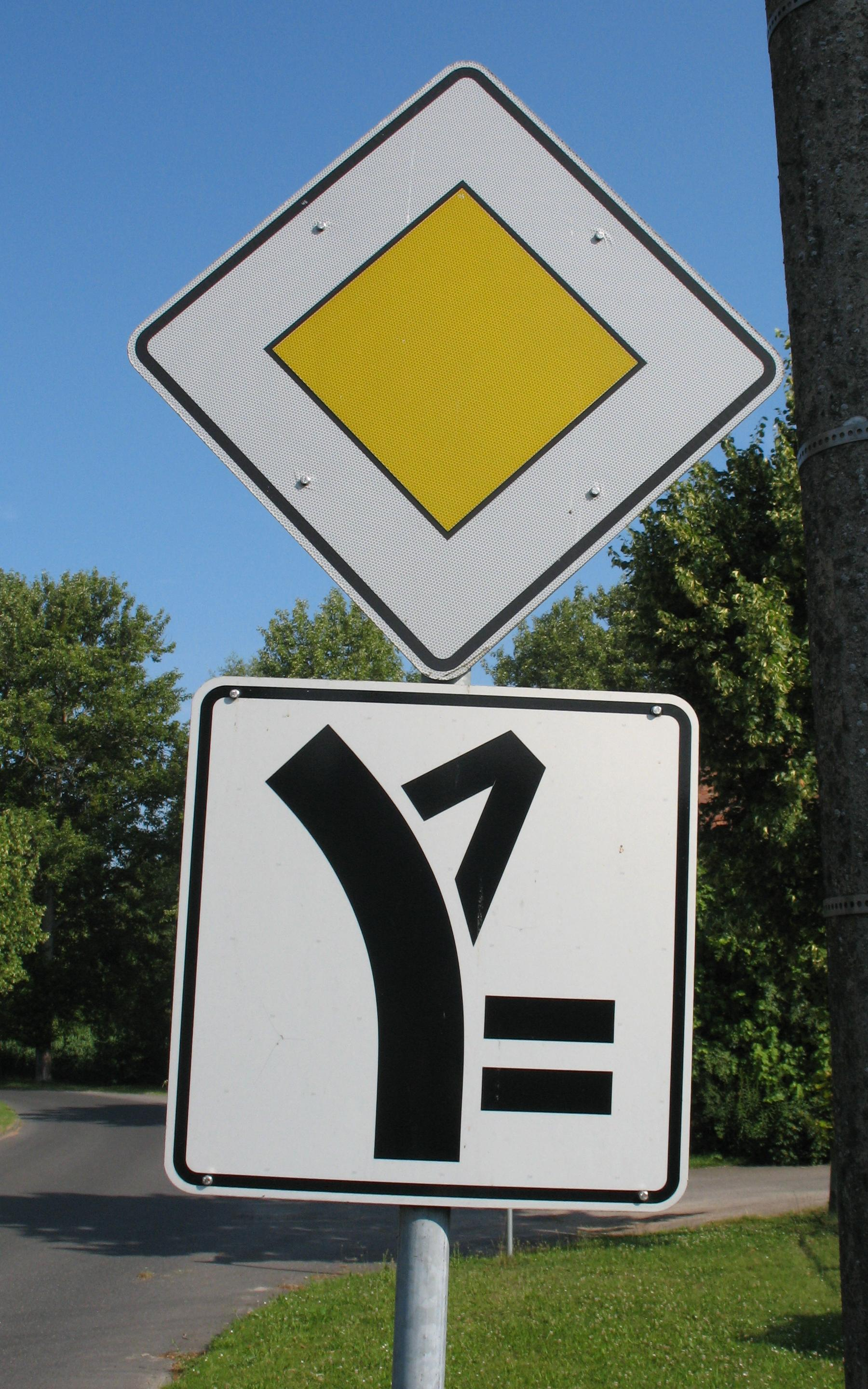 Traffic sign in Höhenland-Wölsickendorf in Brandenburg, Germany